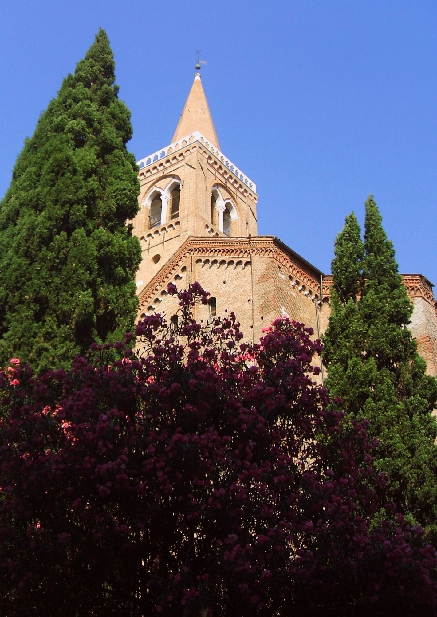 Saint Augustine's Church in Rimini